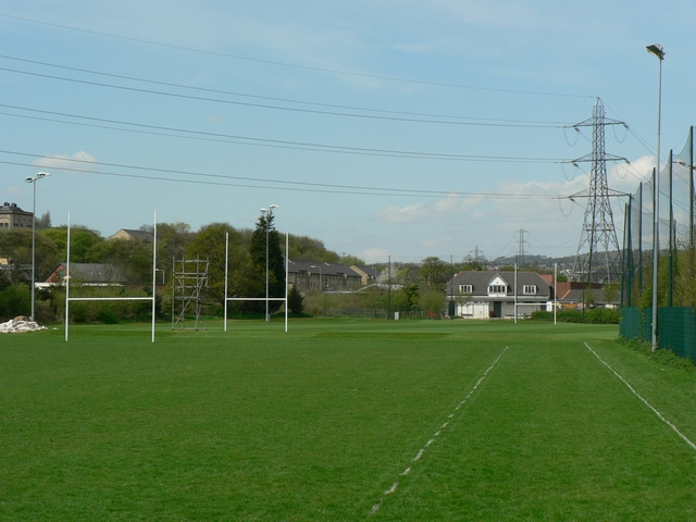 Leeds Rugby Academy, Kirkstall. Looking along the fence on the east side adjacent to Morrisons.